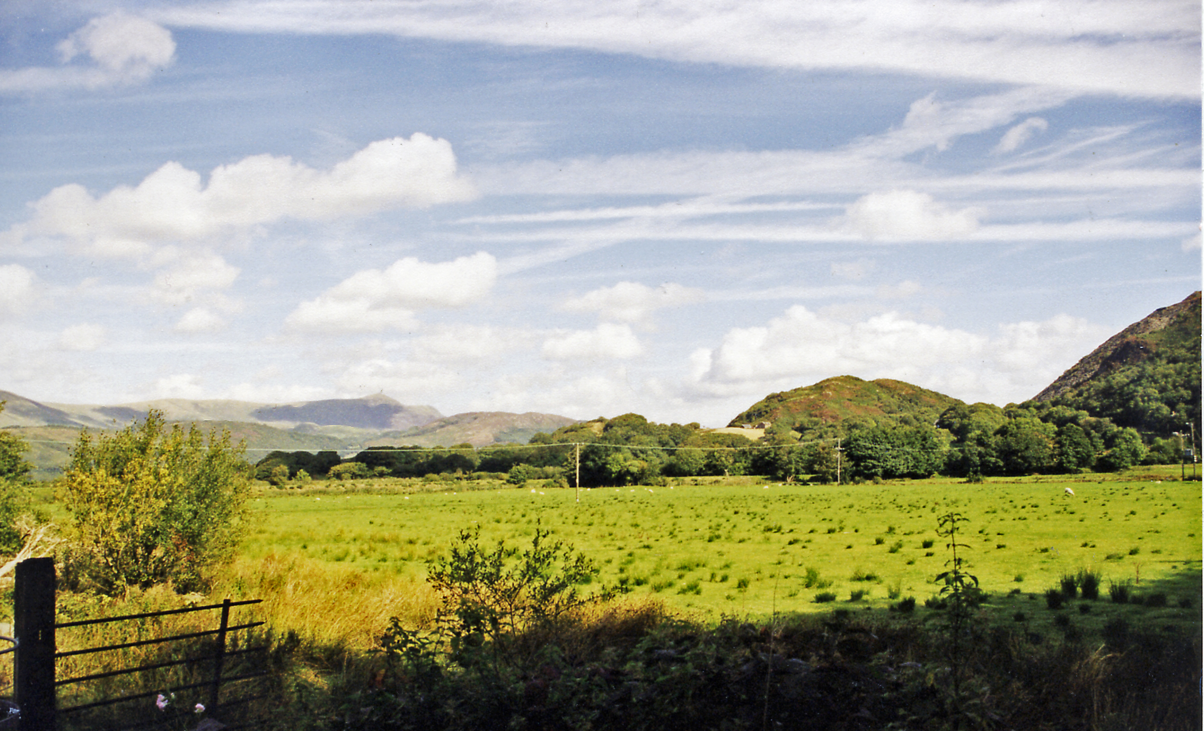 NE view up Afon Mawddach valley from A494 towards site of Arthog station. The ex-Cambrian Railway station had been in the middle distance running along the south side of the river between Morfa Mawddach (left, former Barmouth Junction) to Dolgellau (right), thence ex-GWR to Bala Junction, Llangollen and Ruabon - (Wrexham - Chester). The station closed with the line on 18/1/65. Up to the right are the lower slopes of Cader Idris (2,927 ft.), next is Bryn Brith (1,256 ft.) and in the distance is Y-Garn (2,064 ft.).